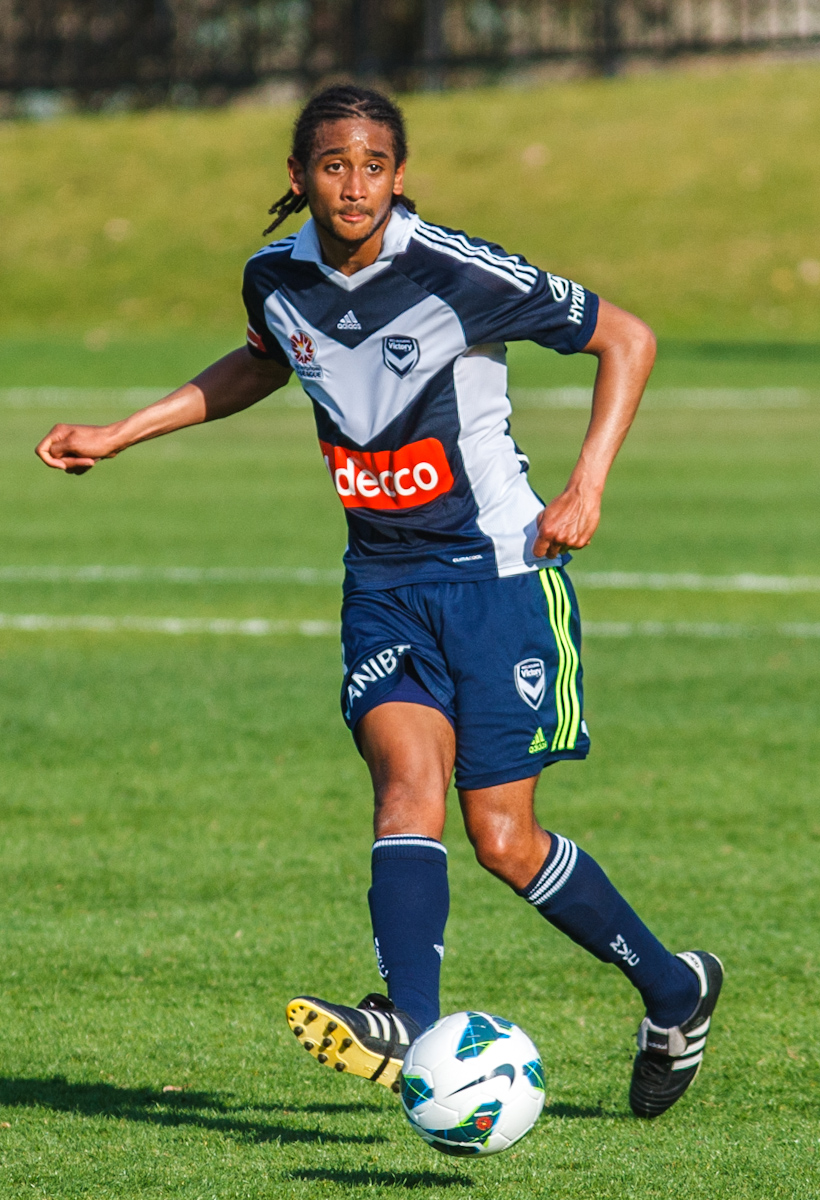 Jonathan Bru playing in a pre-season game between the Central Coast Mariners and Melbourne Victory on 16/09/2012.